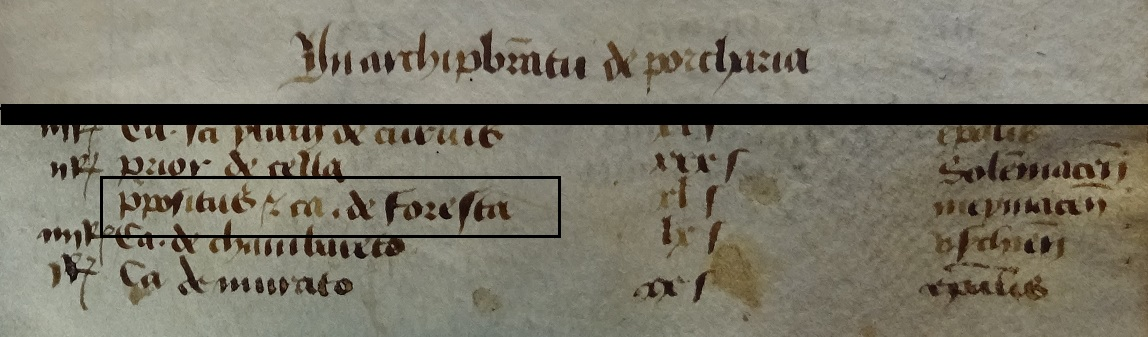 Extrait du Pouillé de 1315. Ancien diocèse de Limoges (Source : Archi.dept.23)